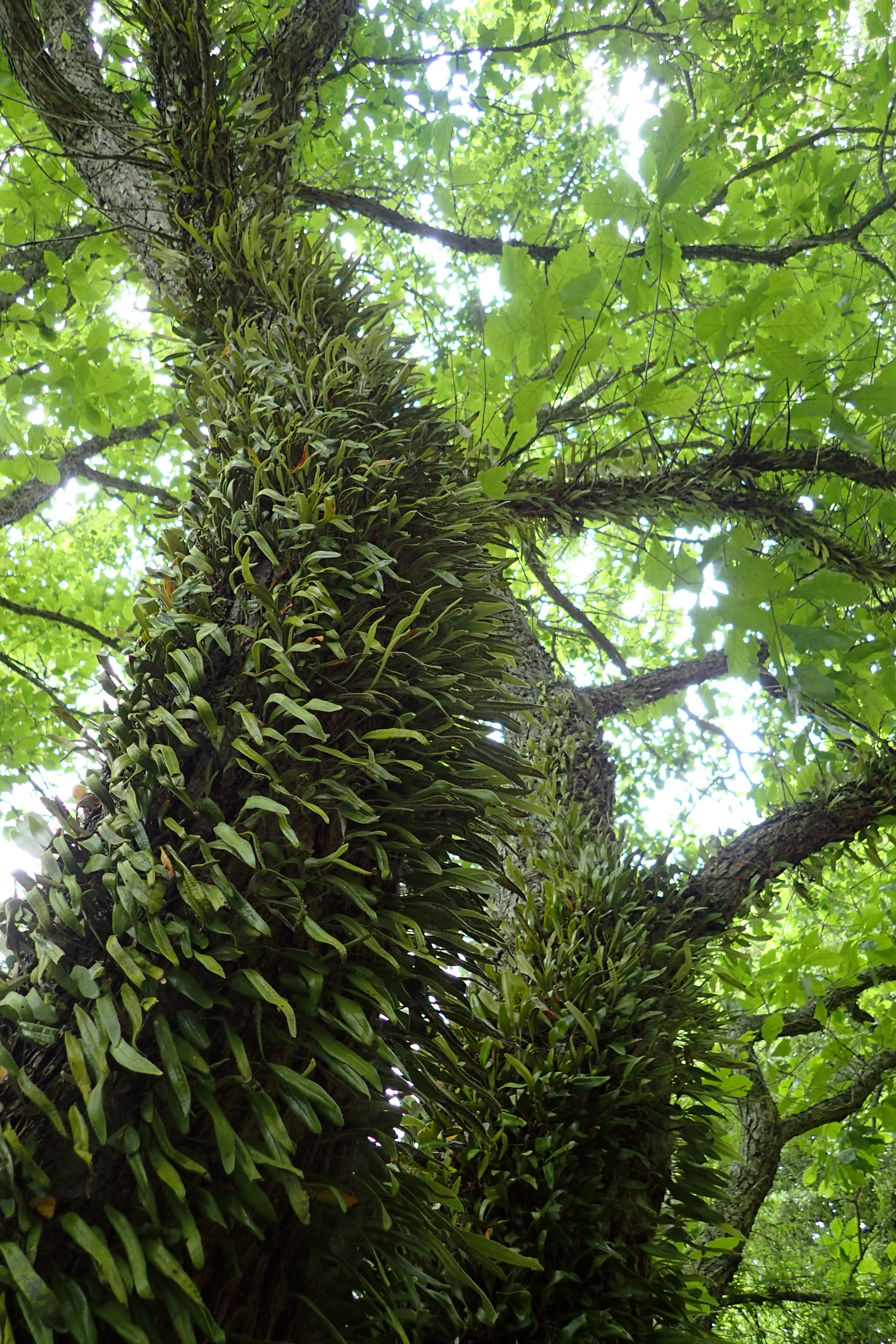 Pyrrosia eleagnifolia in Eastwoodhill Arboretum (New Zealand)